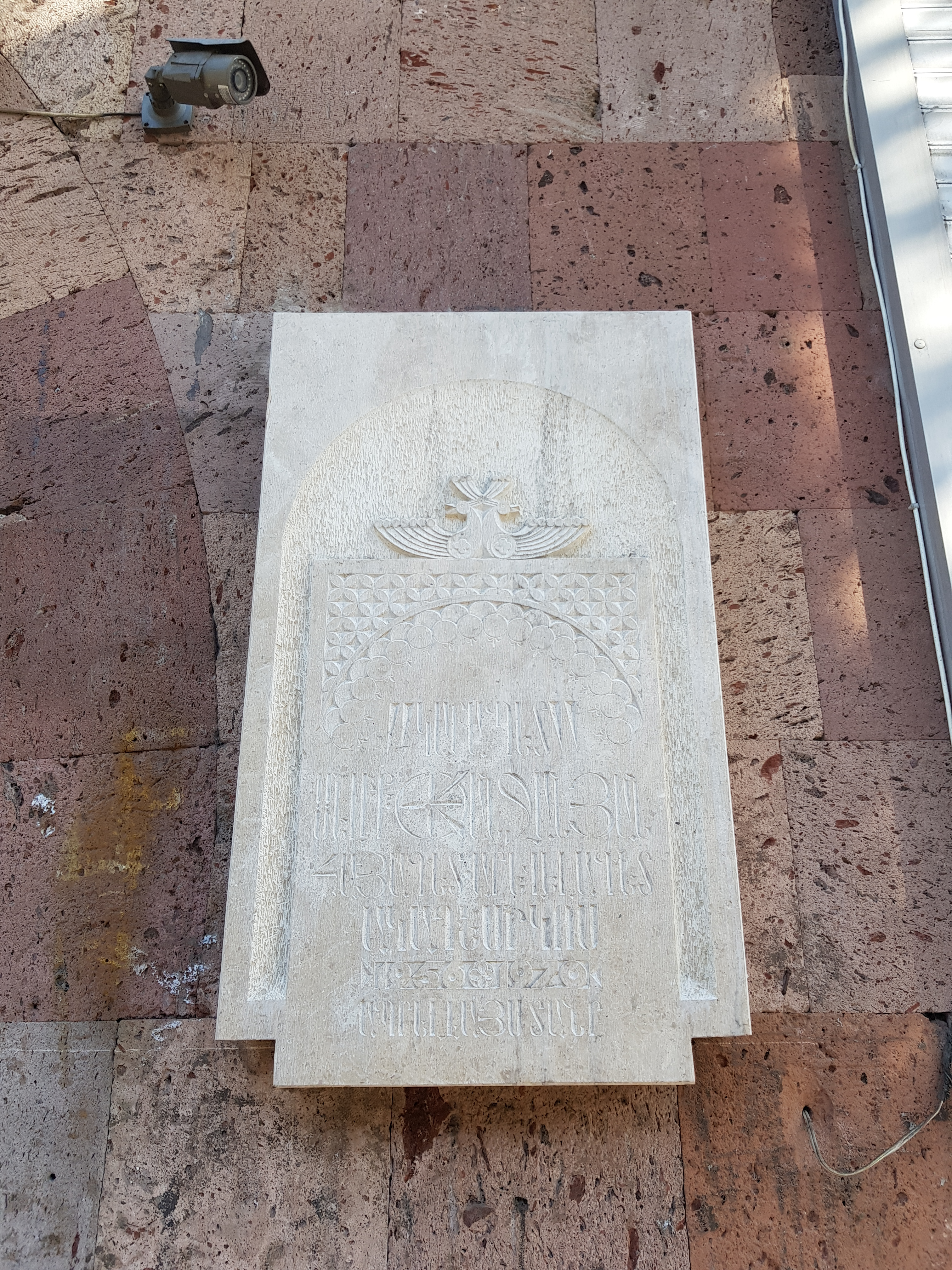 Karapet Melik Ohanjanyan's Plaque